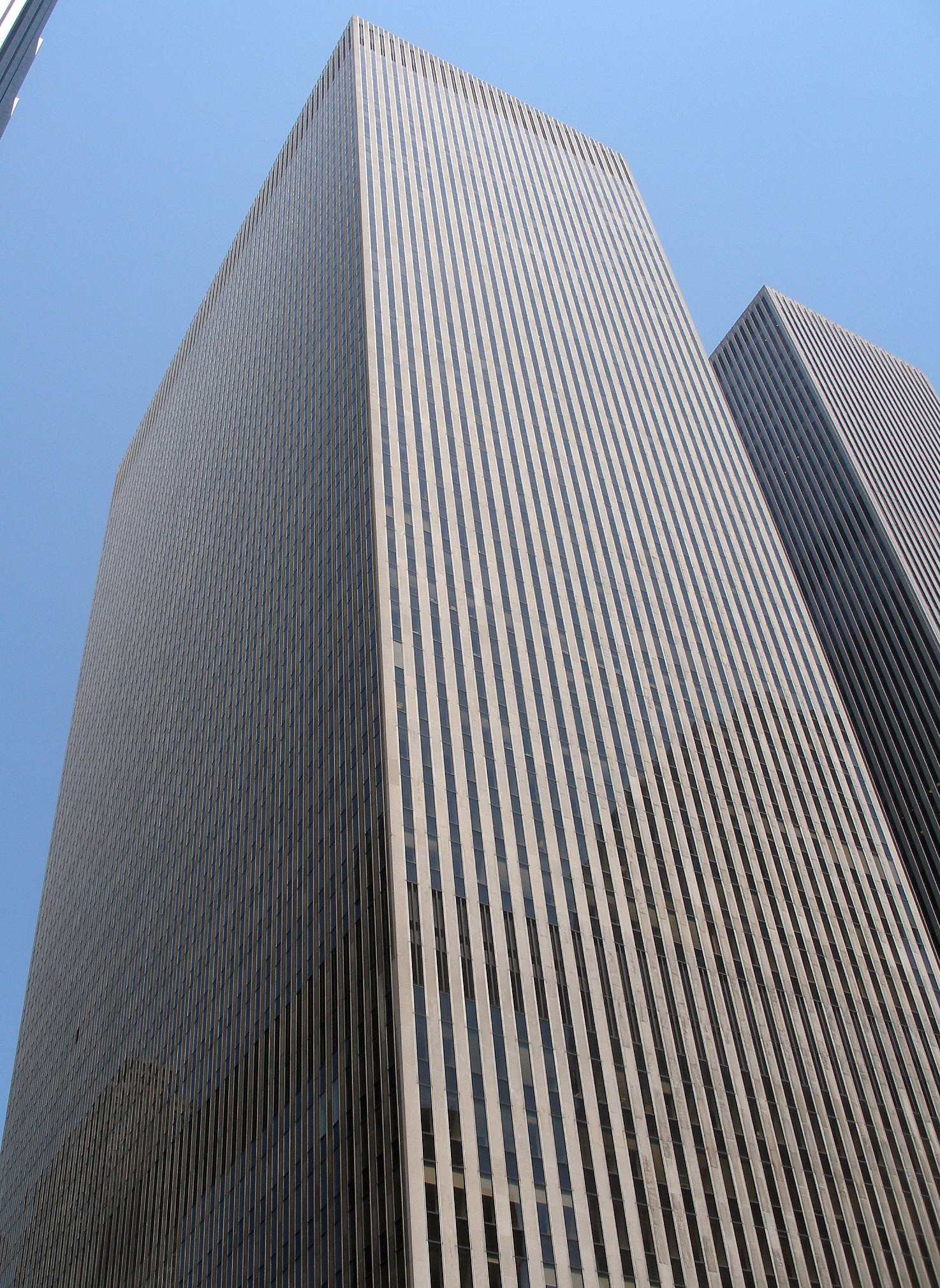 This skyscraper, 1211 Avenue of the Americas in New York City, is the home to the headquarters of News Corporation. It was formerly known as the Celanese Building.